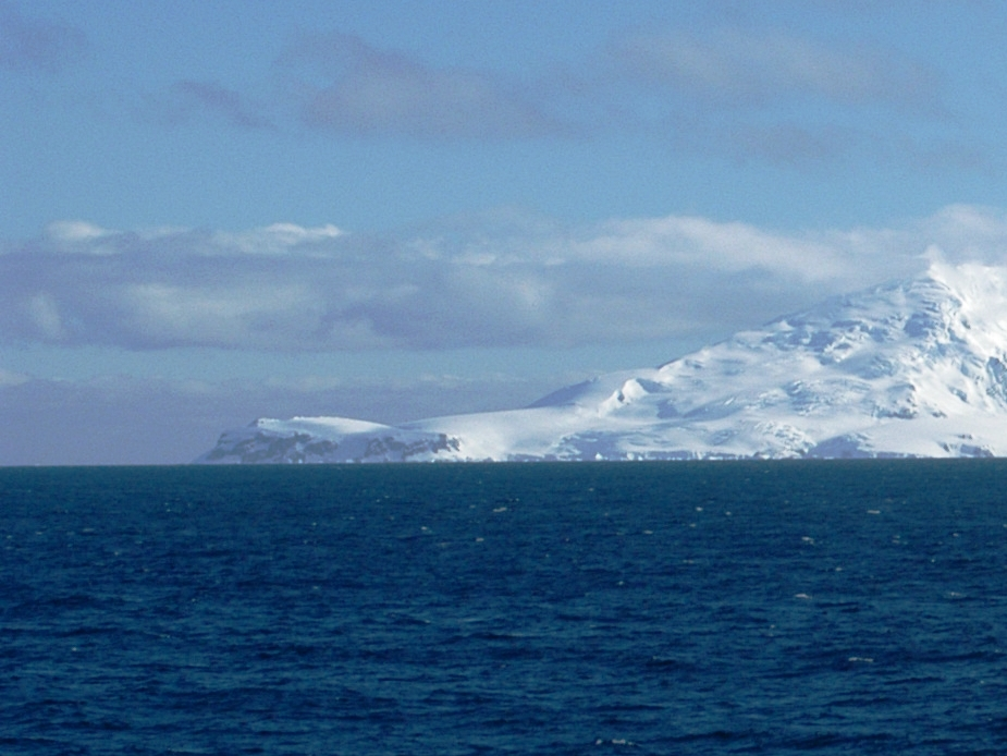 Cape James, Smith Island, South Shetland Islands. Derivative work, fragment of the photo of Smith Island, Antarctica, taken from deck of R/V Lawrence M. Gould by Cfrohlich, Cliff Frohlich, Univ. Texas Austin